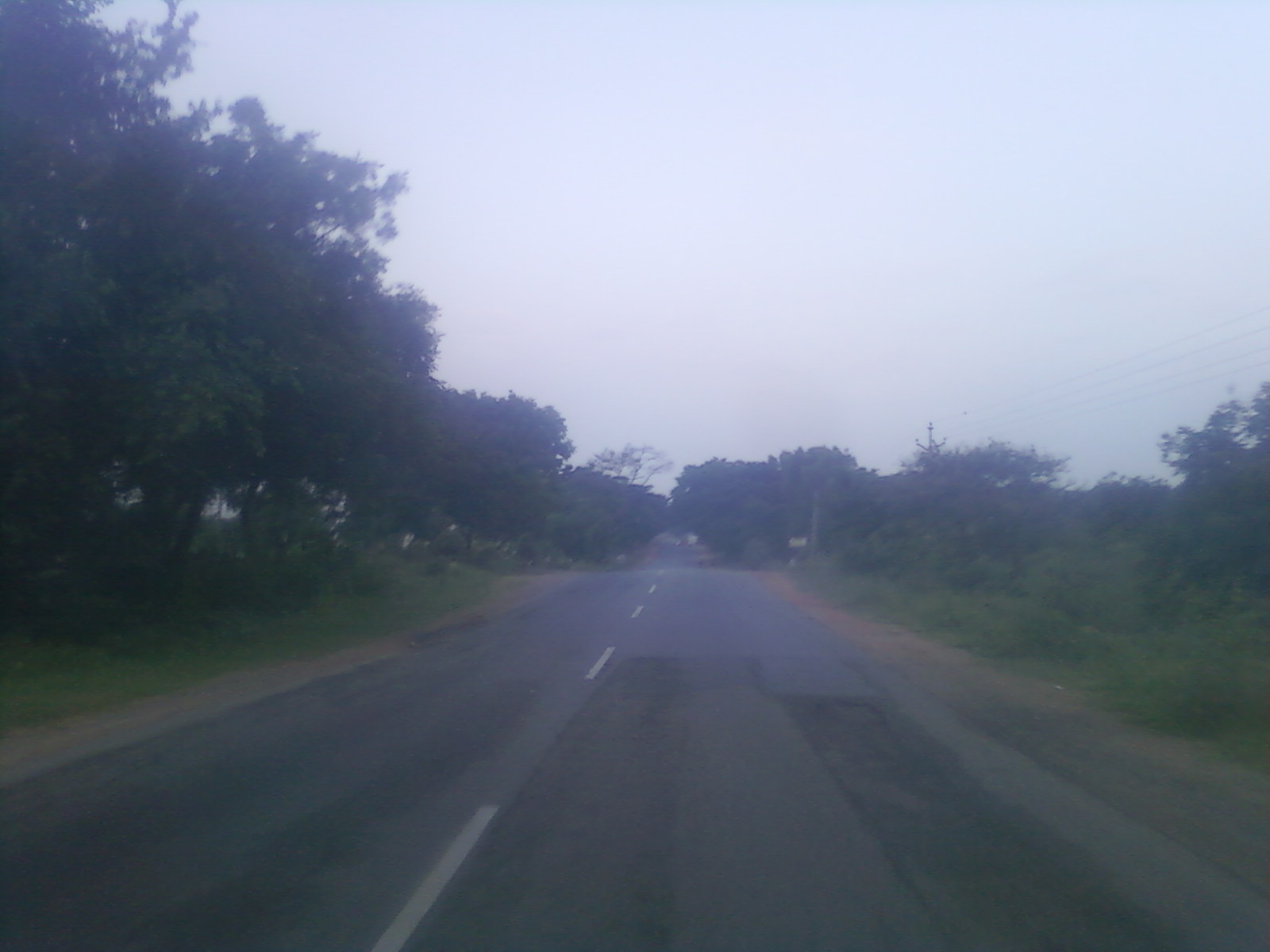 The Image shows the National Highway 202 (India) which connects Hyderabad, India and Warangal. The Image was taken early in the morning around 07:00 a.m. The area is on the outskirts of Uppal Kalan.